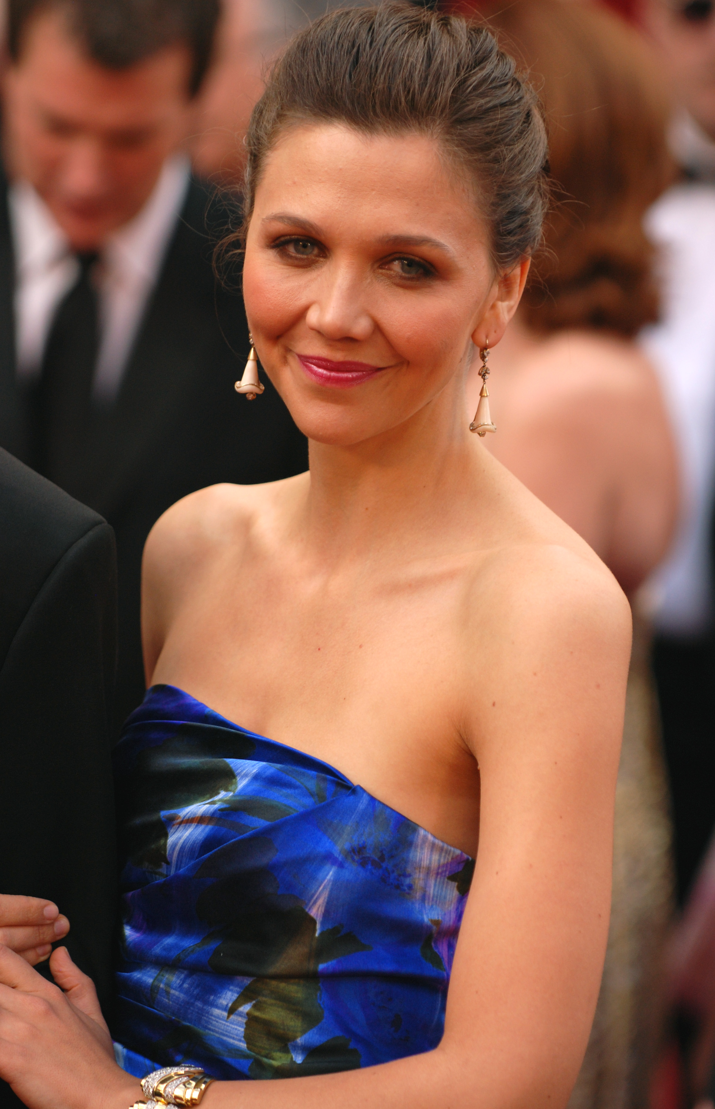 Maggie Gyllenhaal arrives at the 82nd Academy Awards, March 7, in Hollywood, Calif. She was nominated for supporting actress for "Crazy Heart."